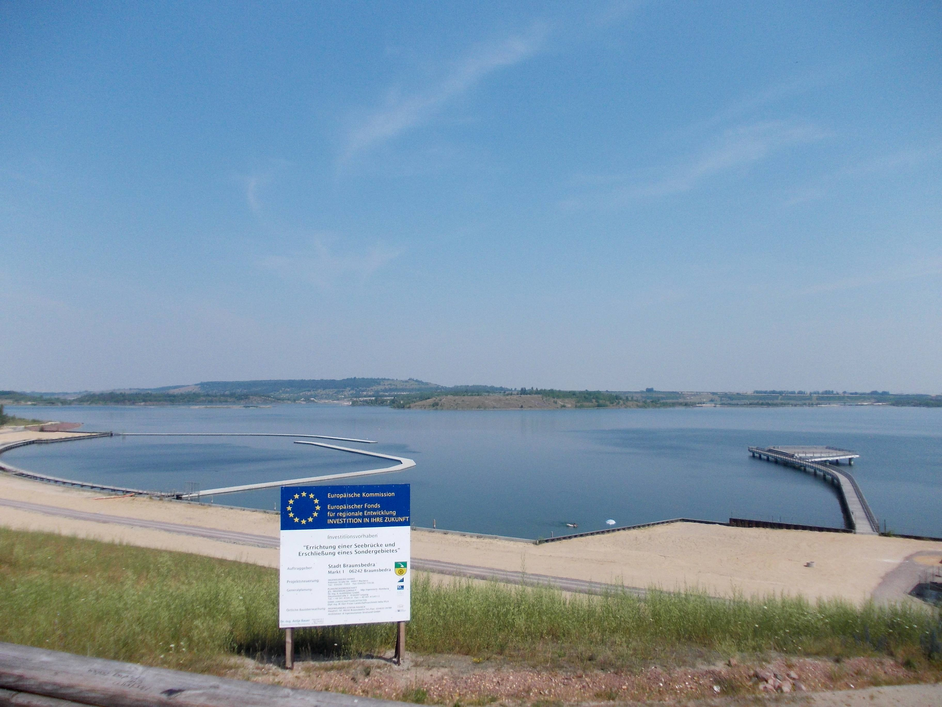 Geiseltal Lake with the port of Braunsbedra (district: Saalekreis, Saxony-Anhalt) in the Neumark quarter under construction, in 2015